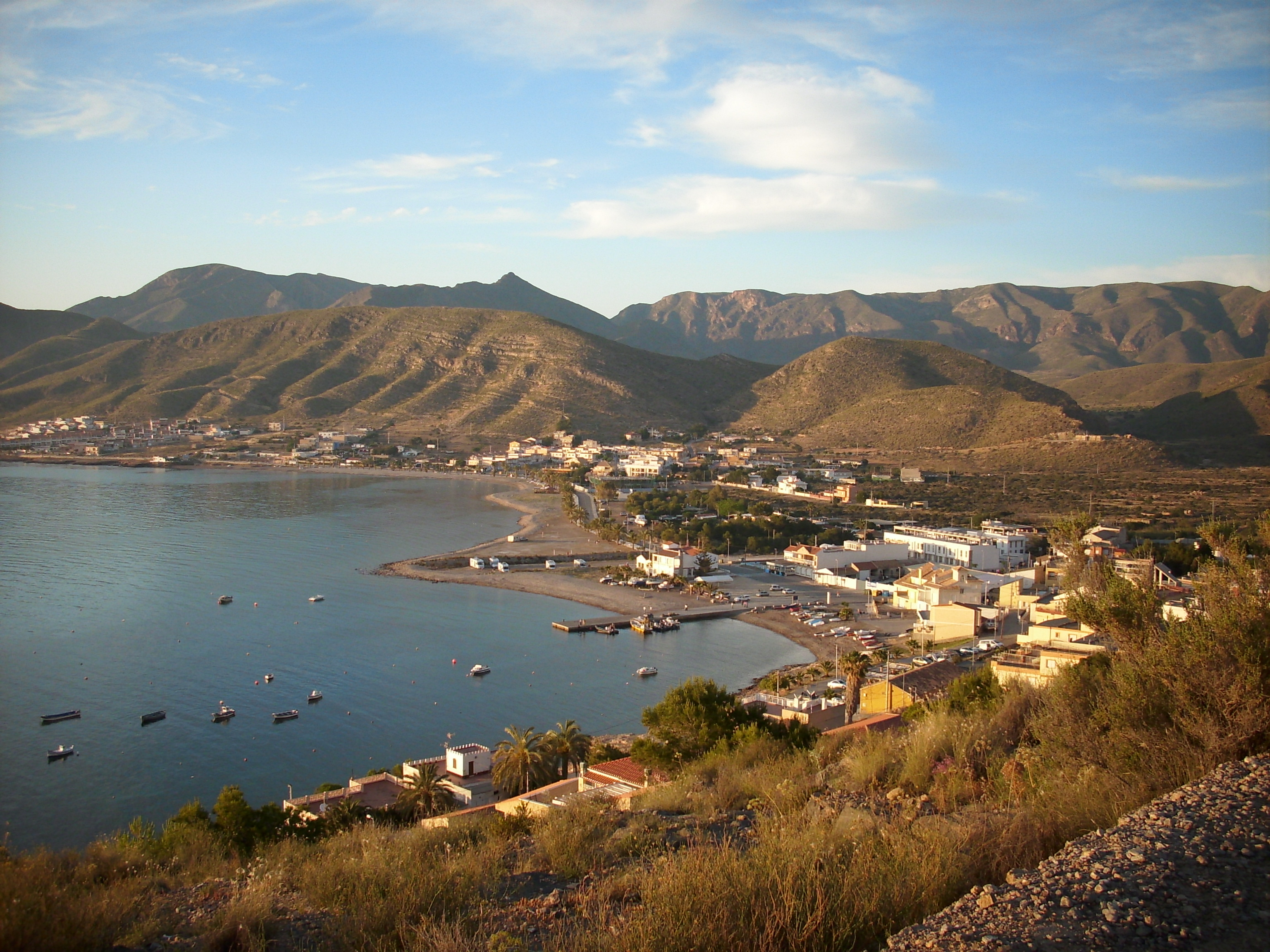 La Azohía, (Views from the way up to Santa Elena Torre) photography : On 17th-June-2009, by TASAIRES With Polaroid i737 Digital Camera Place: town Singular population entity Locality of Spain